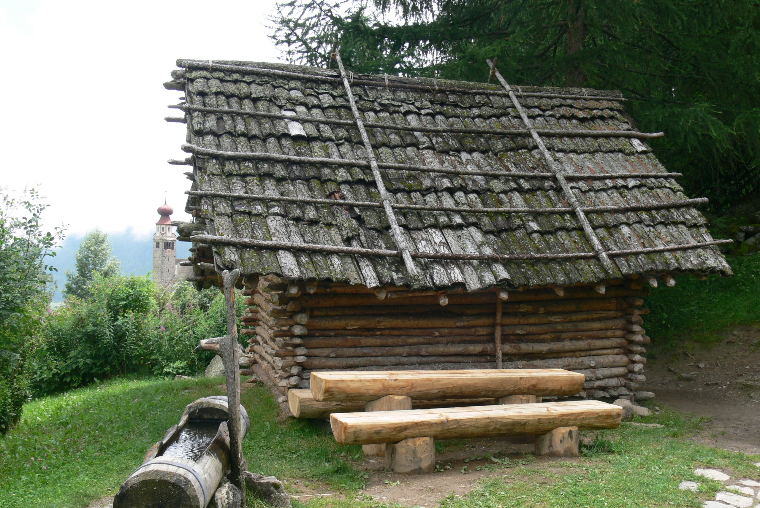 Archeoparc ( Schnals valley / South Tyrol ). Reconstruction of a neolithic hut.